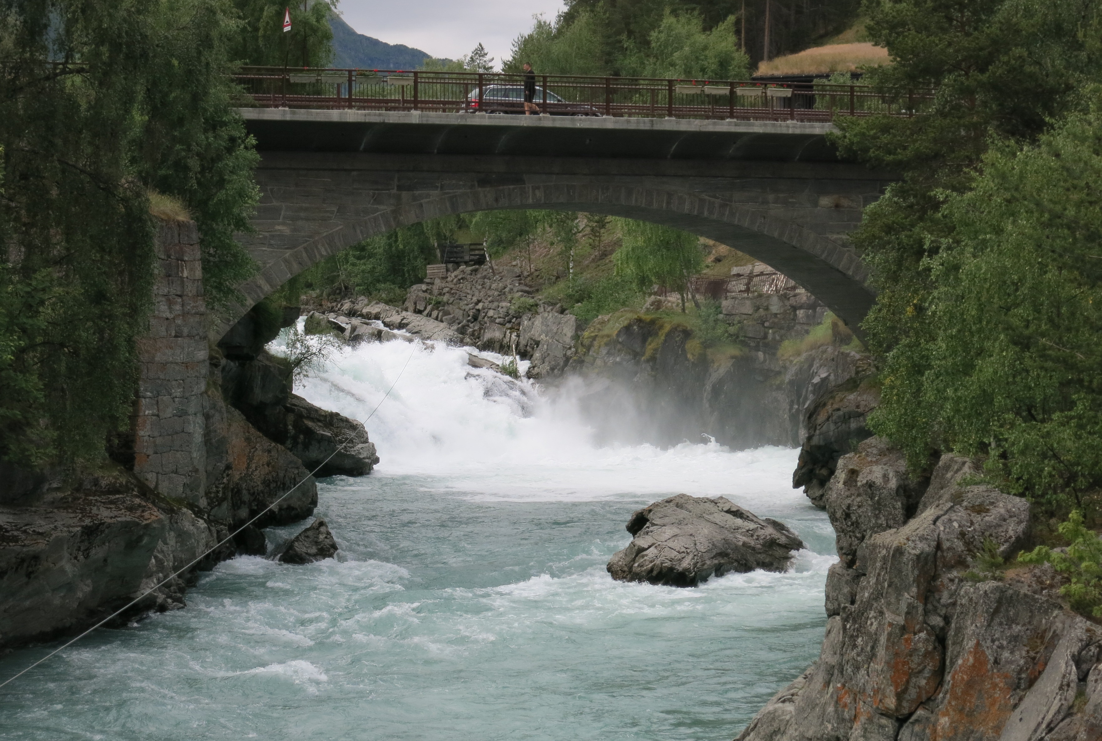 Prestfossen og Ulstad bru, Lom, Norway